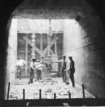 Construction work on the diversion tunnel for Great Falls Dam near Rock Island, Tennessee, United States.